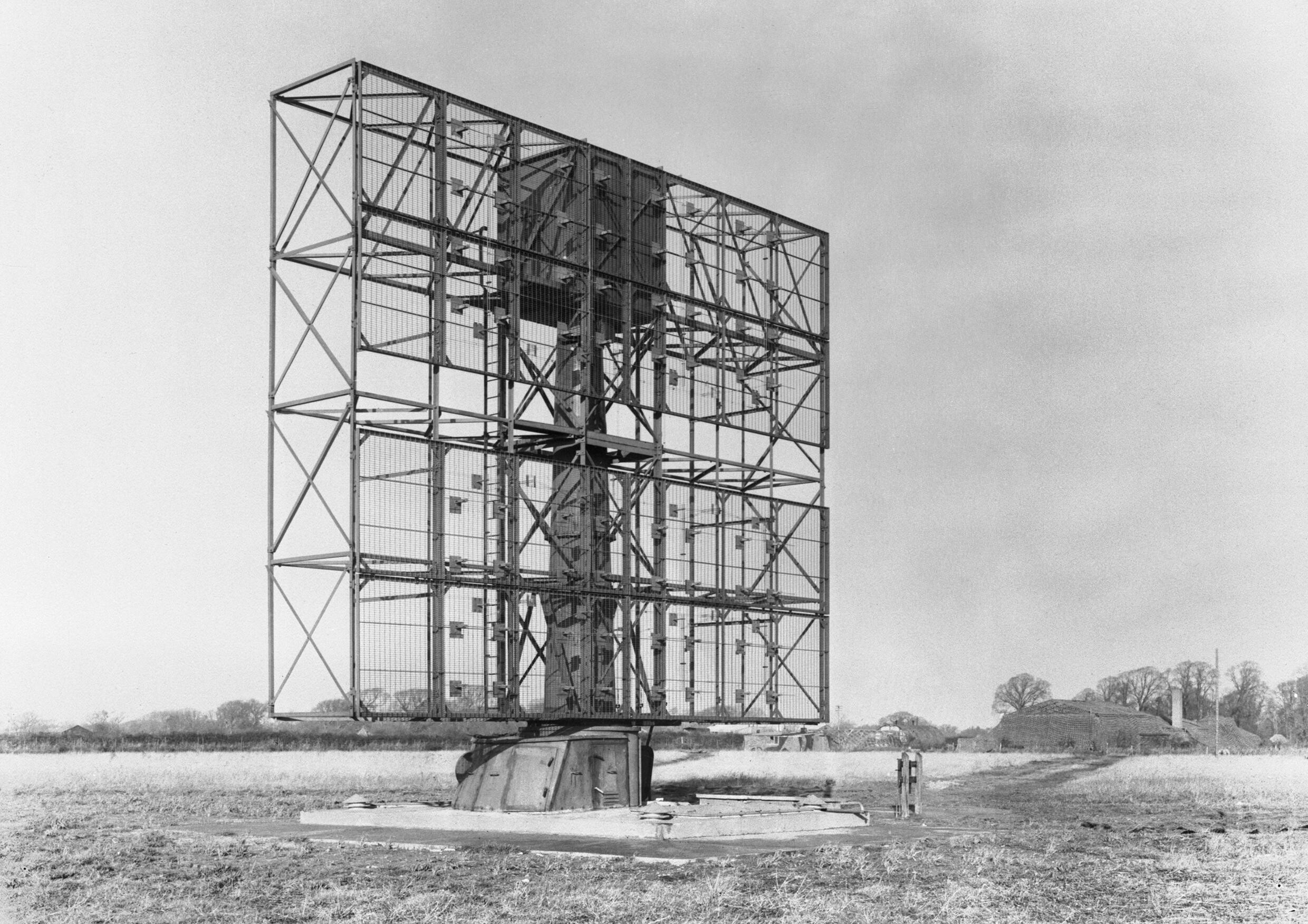 GCI (Ground Control of Interception) radar installation at RAF Sopley, Hampshire, 1945. Ground Control of Interception: AMES Final Type 7 GCI Fixed radar installation at RAF Sopley, Hampshire. The Type 7 was a metric radar operating in the 1.5 metre wave band, the usual operating frequency being 209 MHz. The aerial system in the foreground is mounted over the Radar Well, which houses the transmitter and receiver, and is connected to the Operations Building (known as the "Happidrome") in the right distance.